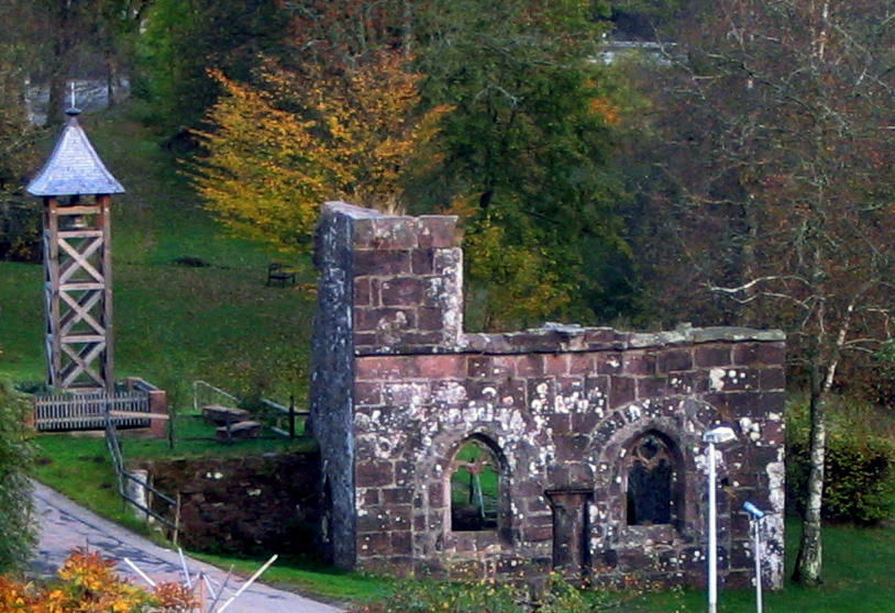 Ruins of the former monastary in Kniebis, Germany